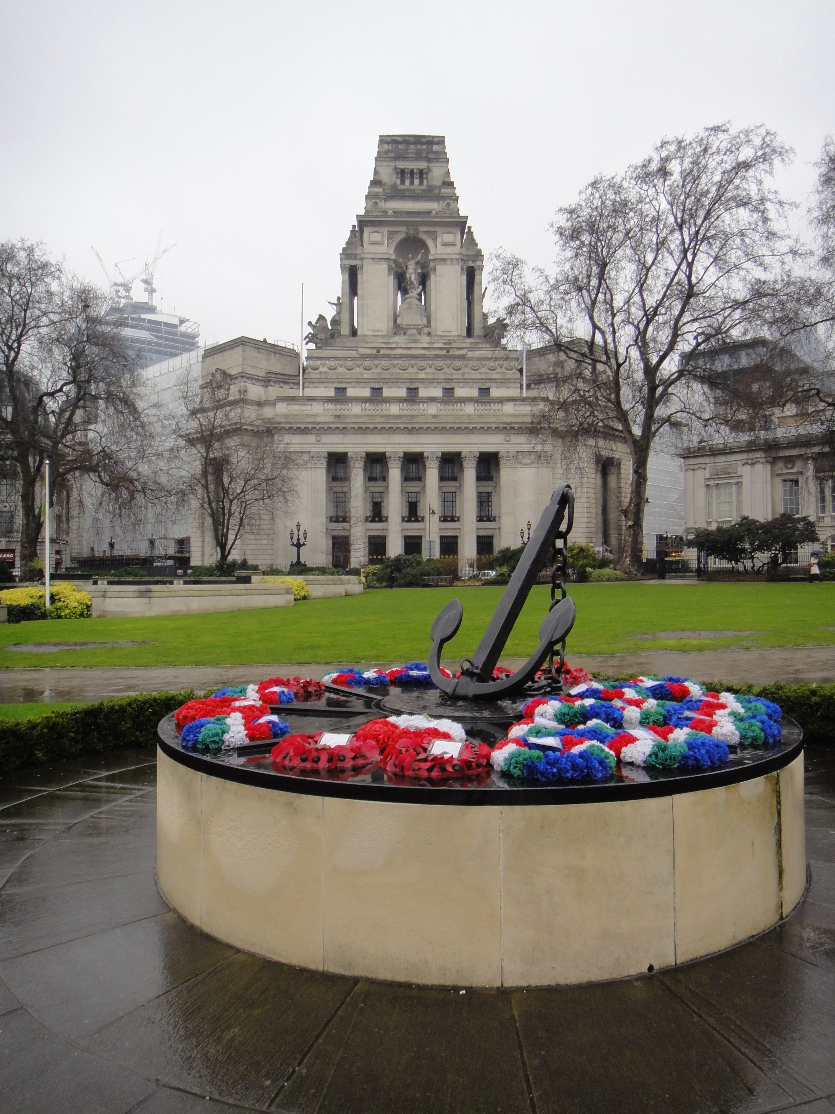 Trinity Square Gardens and Port of London authorty in rainy, rainy London